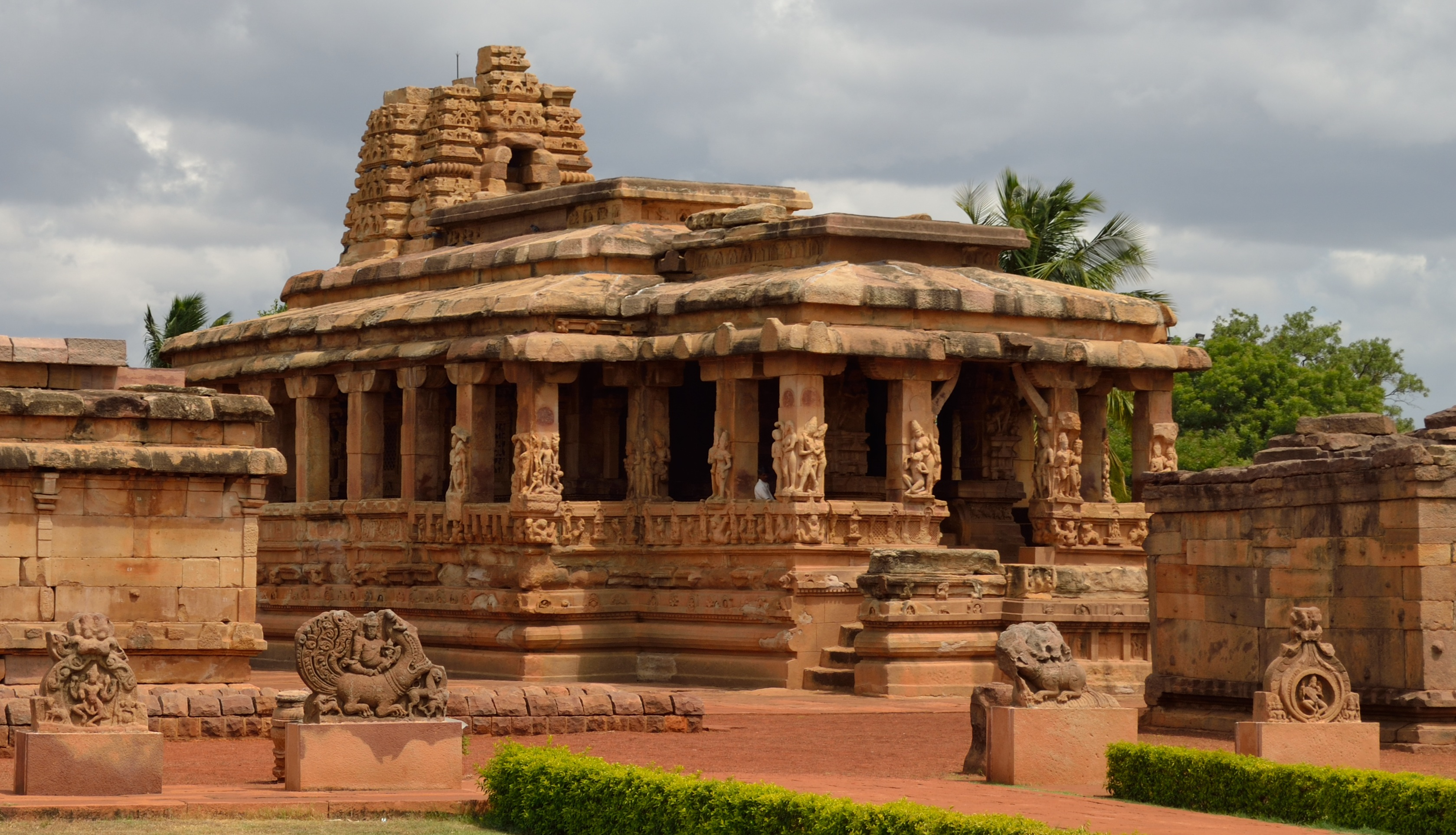 Great Durga temple